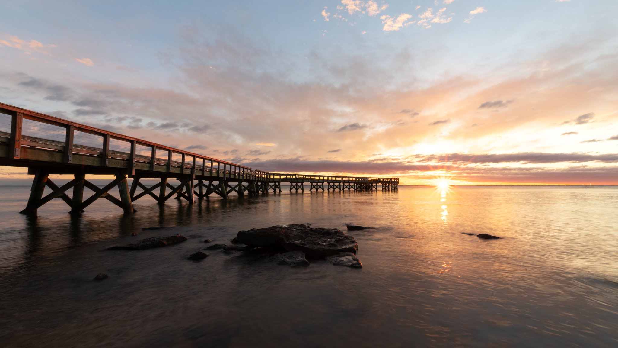 The view next to the Downs Park Public Pier